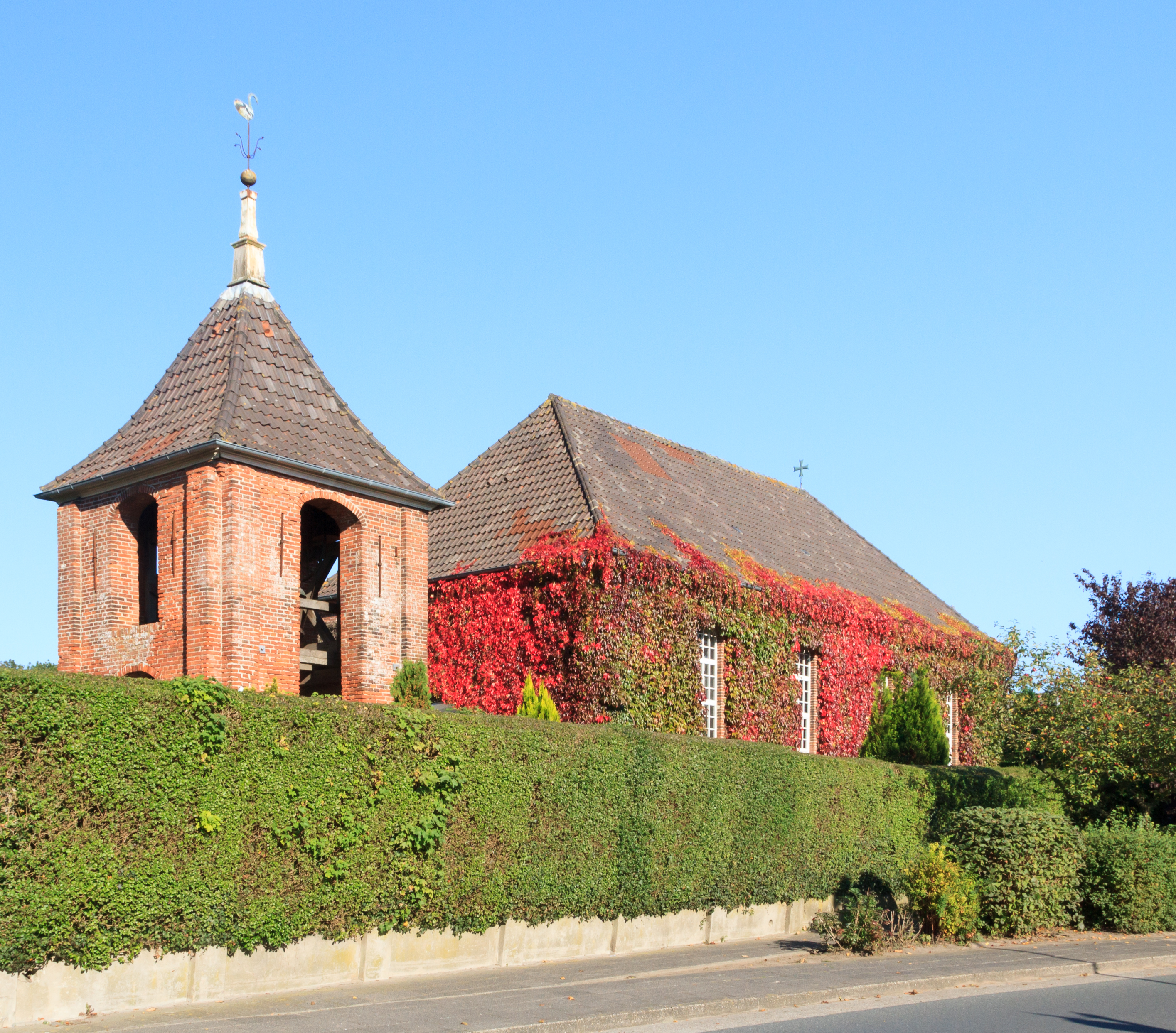 Carolinensiel church